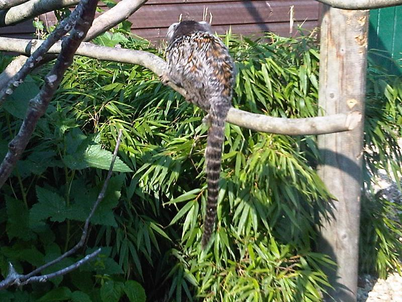 Common marmoset (Callithrix jacchus) at Owl and Monkey Haven in Isle of Wight, England.